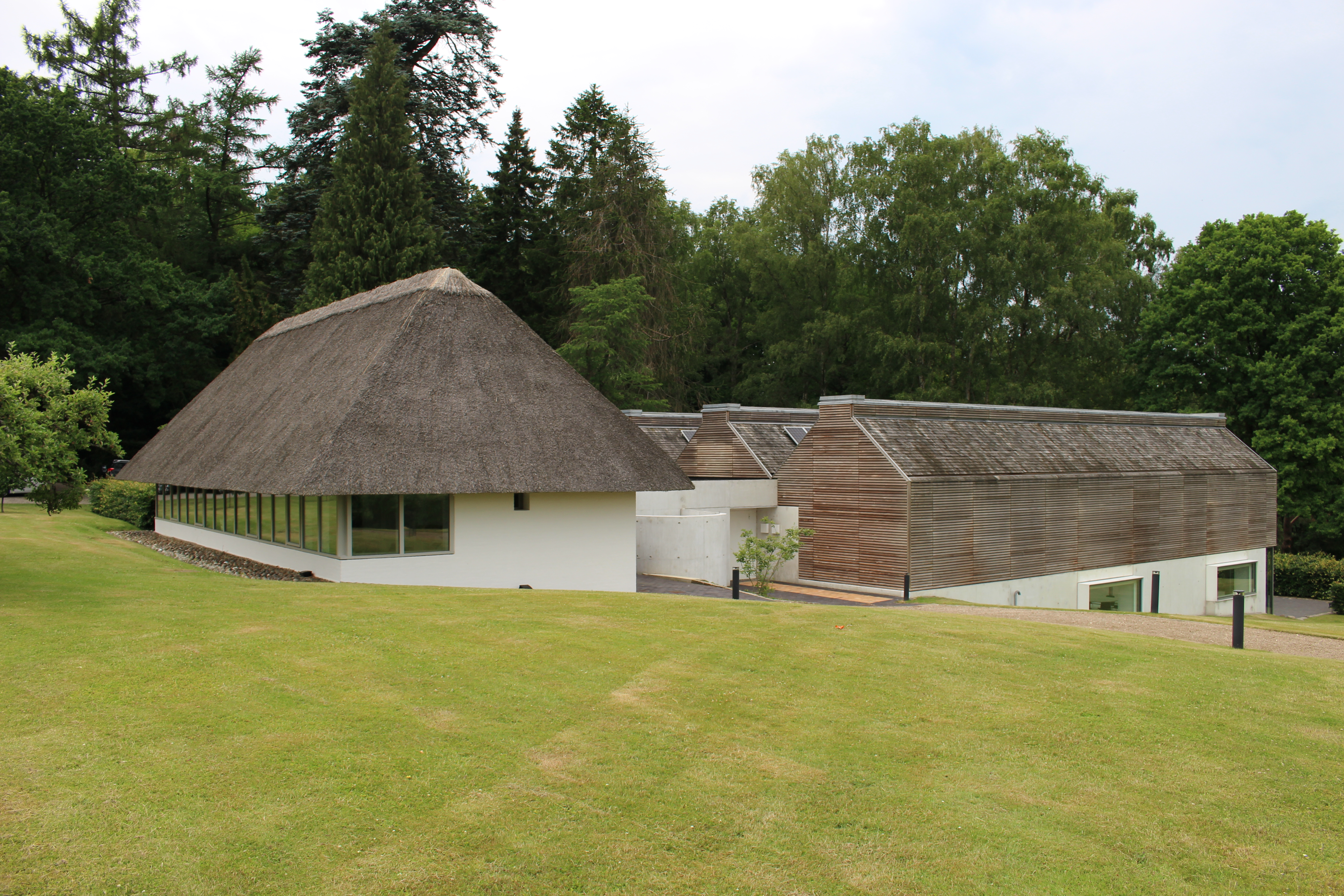 The modern garden pavilion at the grounds of Marienborg, Kongens Lyngby Denmark. Midsummer evening 2016.